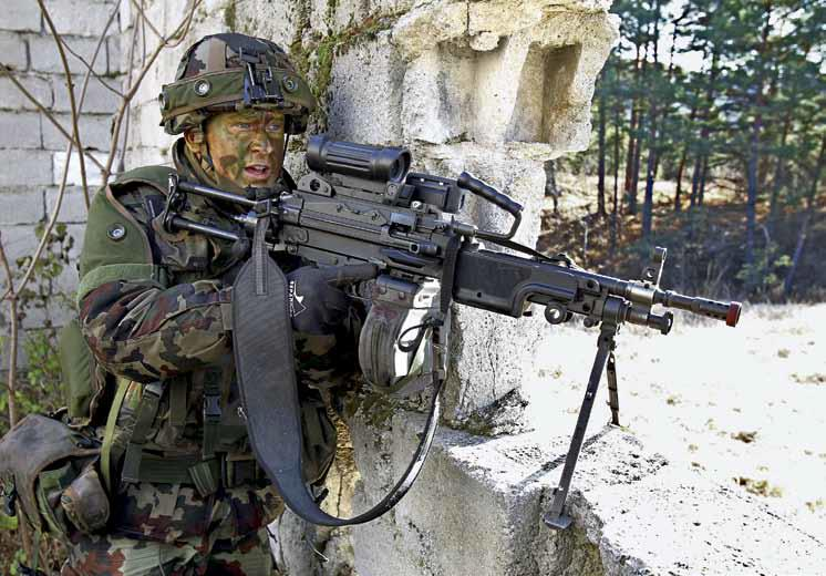 Slovenian soldier with FN Minimi